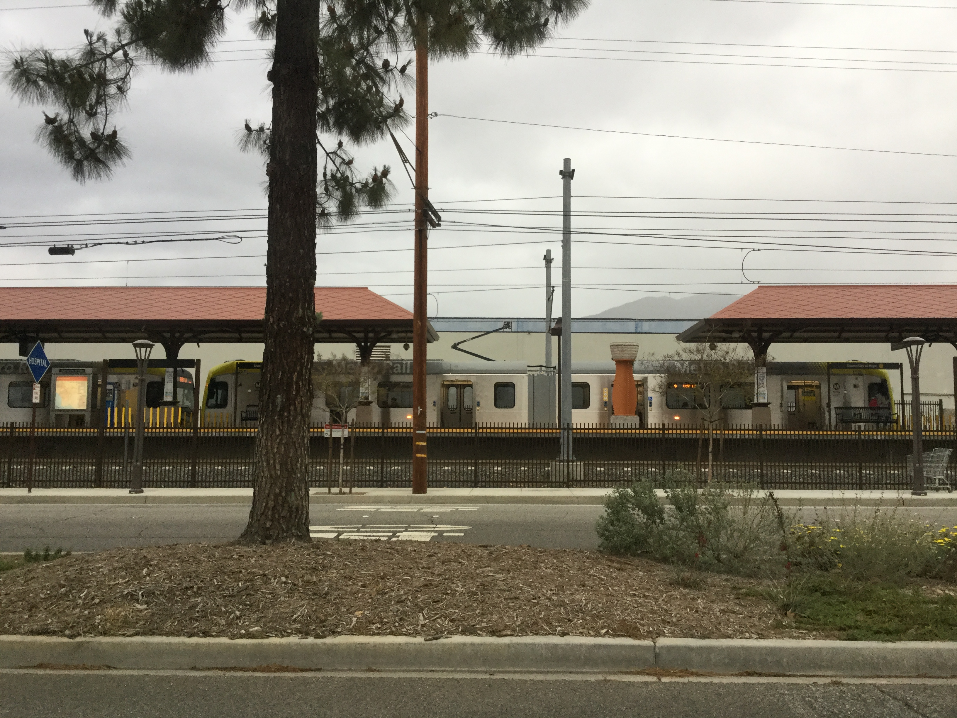 The LACMTA Gold Line Duarte Station